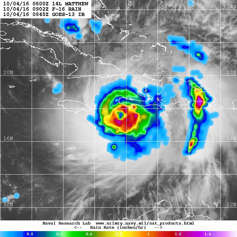 Microwave image of rainfall rates in Hurricane Matthew from the F-16 polar orbiting satellite taken at 5:02 am EDT October 4, 2016. At the time, Matthew was a Category 4 storm with 145 mph winds. Rainfall amounts in excess of 1”/hour (orange colors) were occurring along the coasts of Haiti and the Dominican Republic.